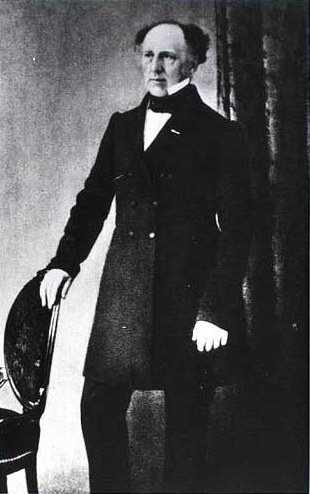 Frederik Emil von (de) Bretton (1799-1878), Danish Baron and supreme court judge